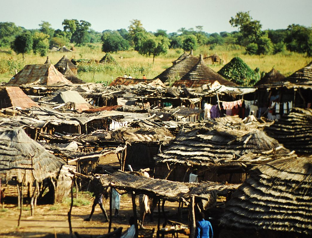 Thatched Huts, outside Wau, southwestern South Sudan.